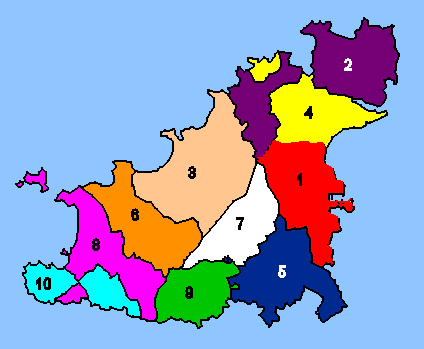 Map of the parishes of Guernsey. Classification in decreasing order of population